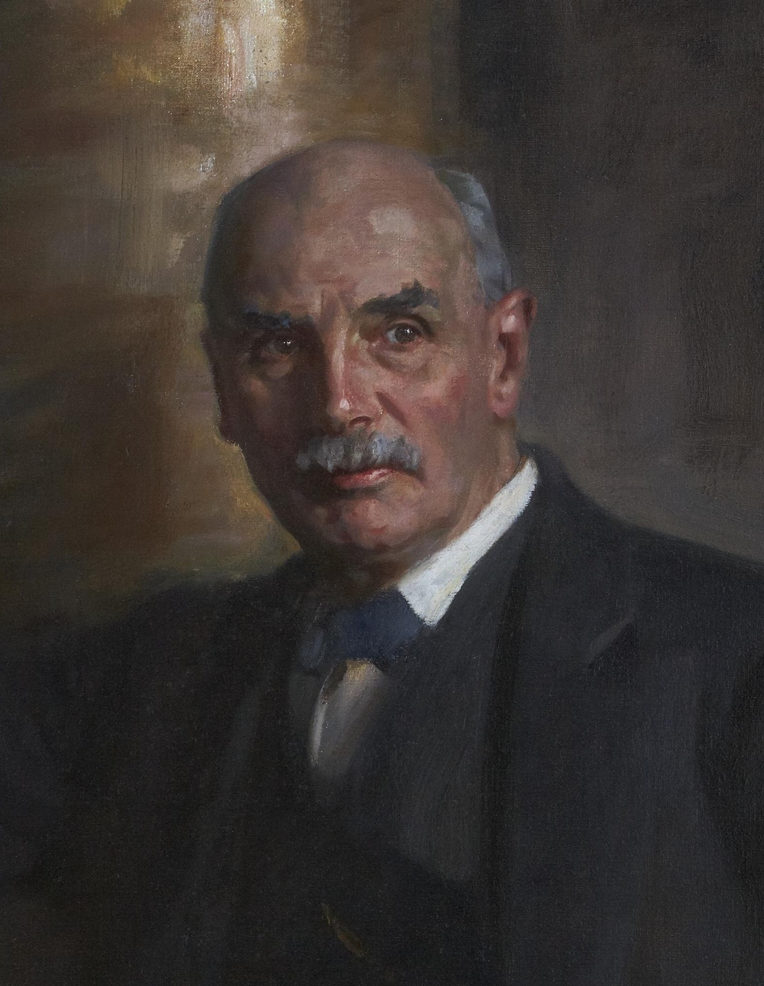 George Nicoll Barnes (1859–1940). Statesman. Study for portrait in Statesmen of the Great War.